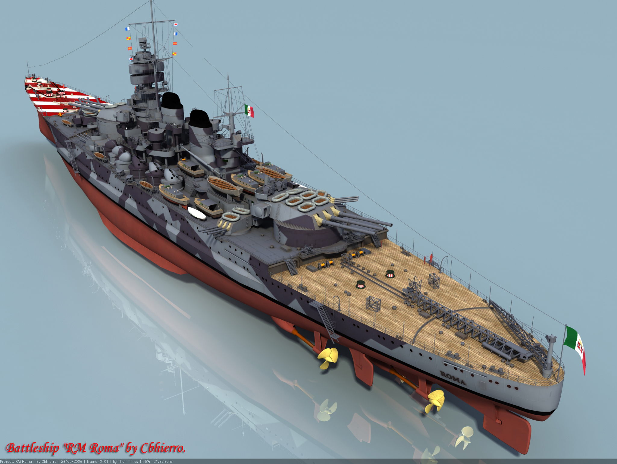 a 3D rendering of the different views of the Regia Marina Roma battleship